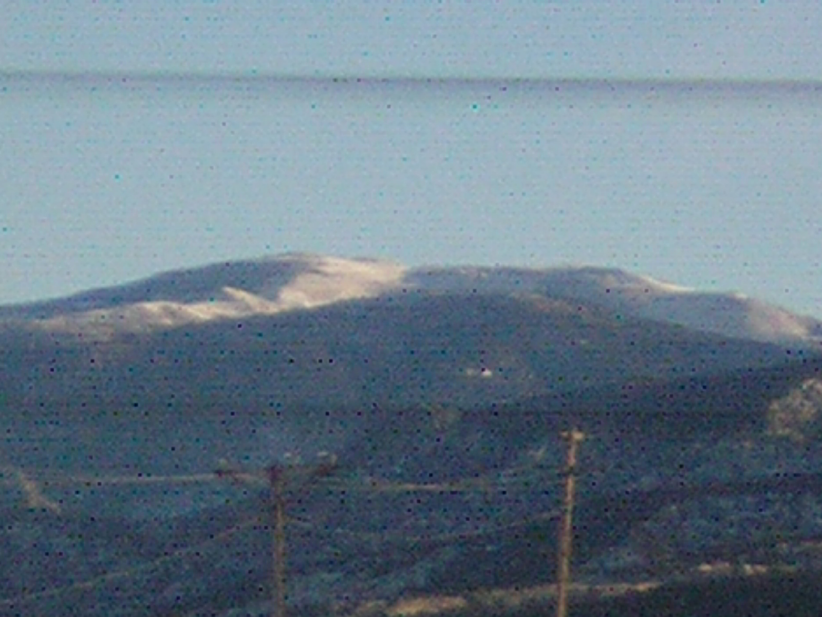 Delano Peak is the highest point in the Tushar Mountains of south-central Utah.